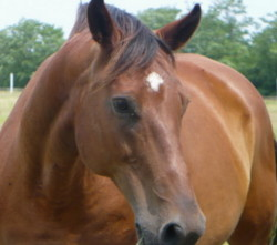 A photo of Mokka, who's a Furioso gelding.